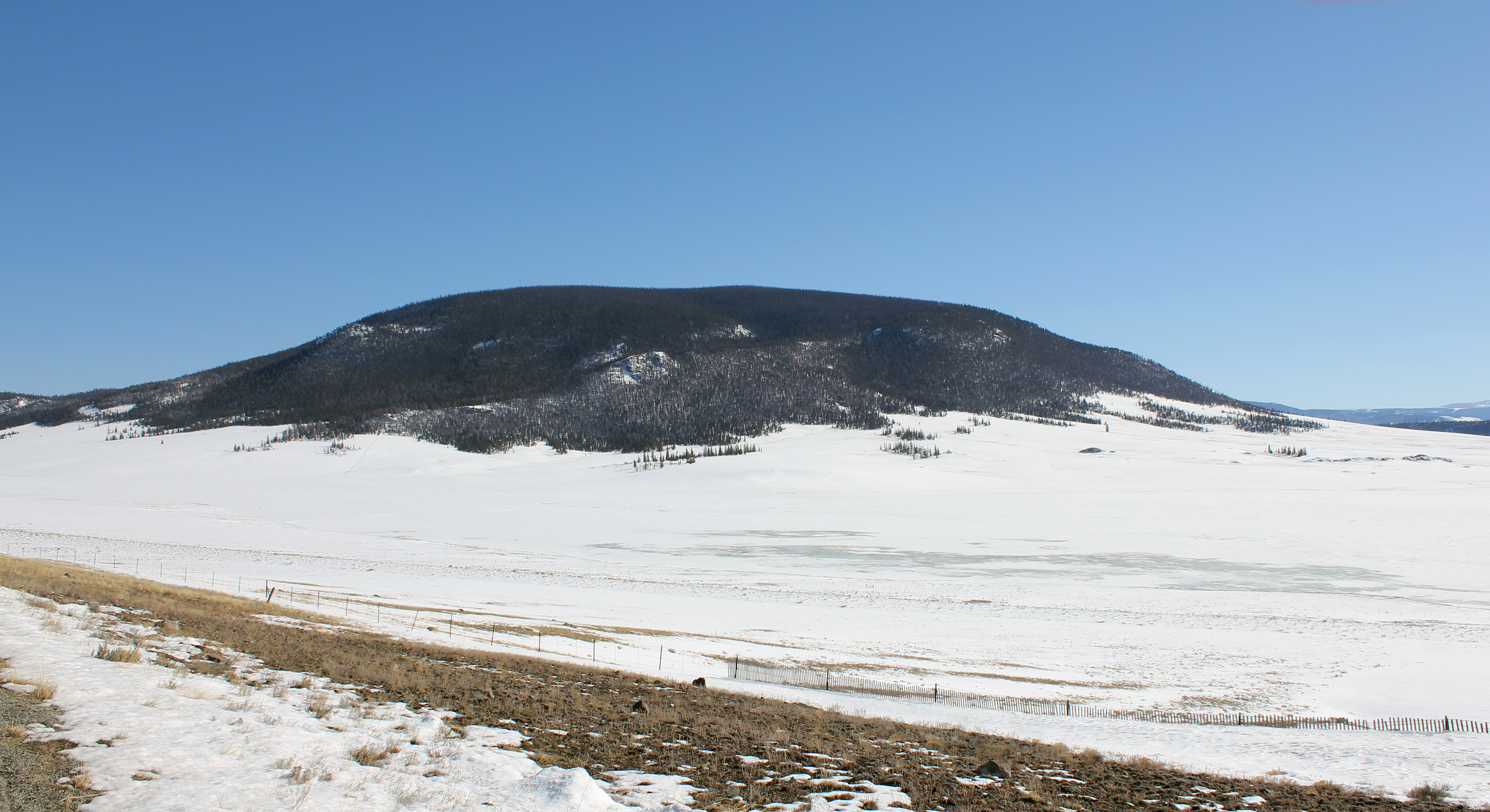 Cochetopa Dome, located in the Cochetopa Park Caldera in Saguache County, Colorado. The mountain is 3395 m (11,138 ft) high. It is located in the San Juan Volcanic Field.